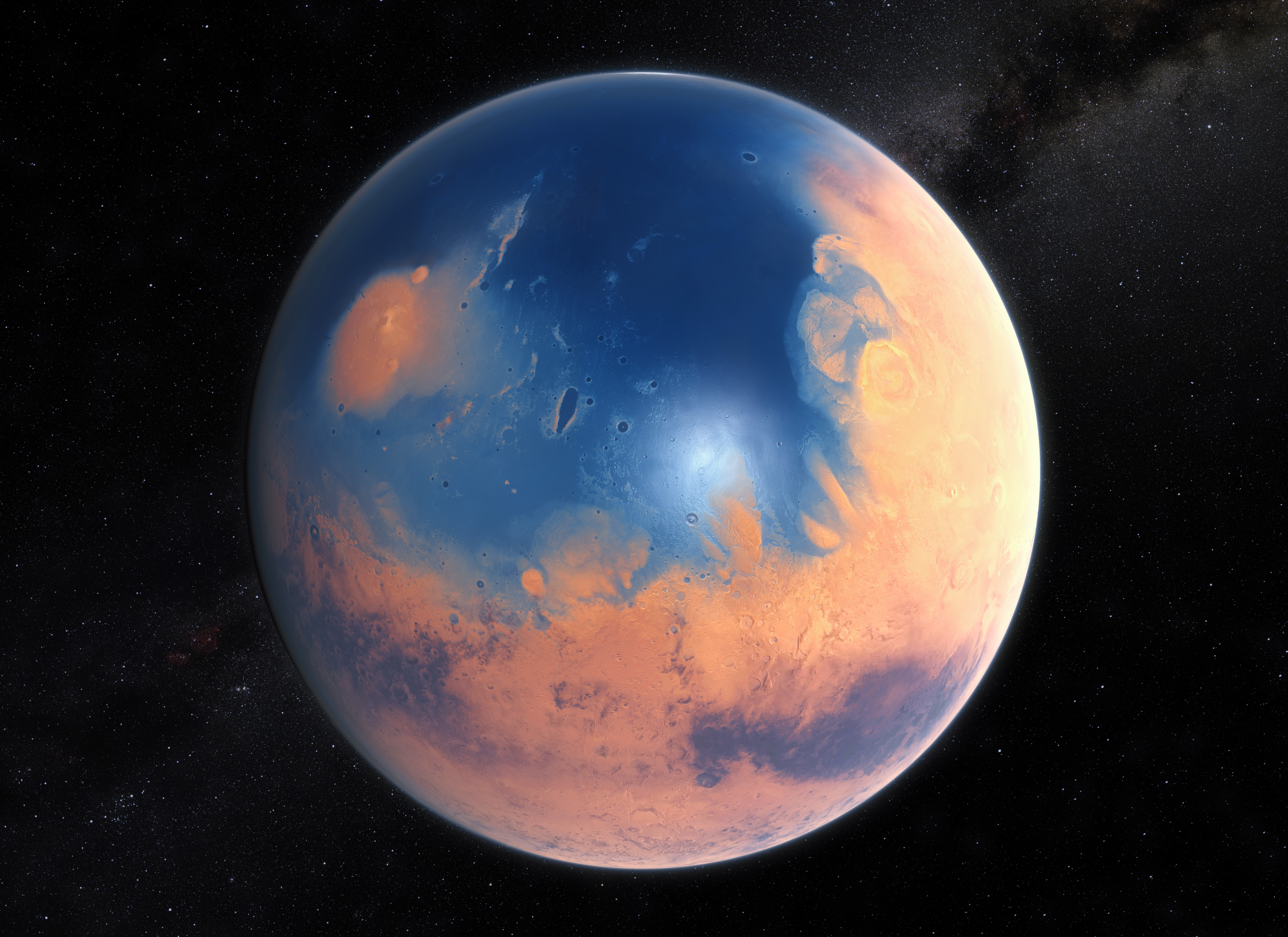 This artist’s impression shows how Mars may have looked about four billion years ago. The young planet Mars would have had enough water to cover its entire surface in a liquid layer about 140 metres deep, but it is more likely that the liquid would have pooled to form an ocean occupying almost half of Mars’s northern hemisphere, and in some regions reaching depths greater than 1.6 kilometres.